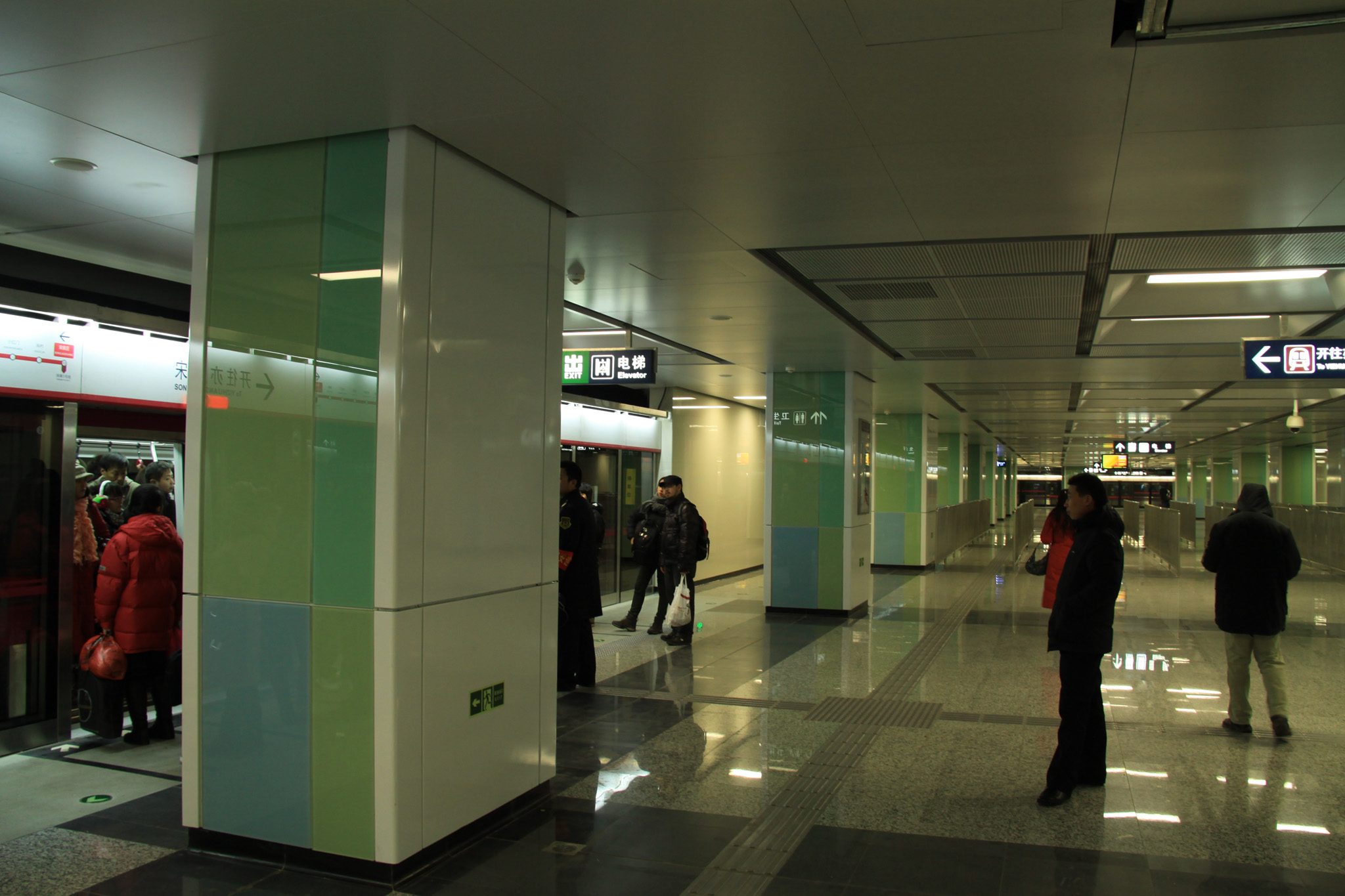 The Transfer platform for line 5 and Yizhuang line of Beijing Subway, Songjiazhuang Transfer station. The train on the left is on direction of Yizhuang Train station of Yizhuang line, and the Train on a little far is the line 5 train which terminated at Songjiazhuang Station. 中文（中国大陆）: 宋家庄站的地铁5号线与亦庄线的换乘站台.靠左侧的列车为亦庄线出城方向列车，远处为宋家庄方向的地铁5号线列车。